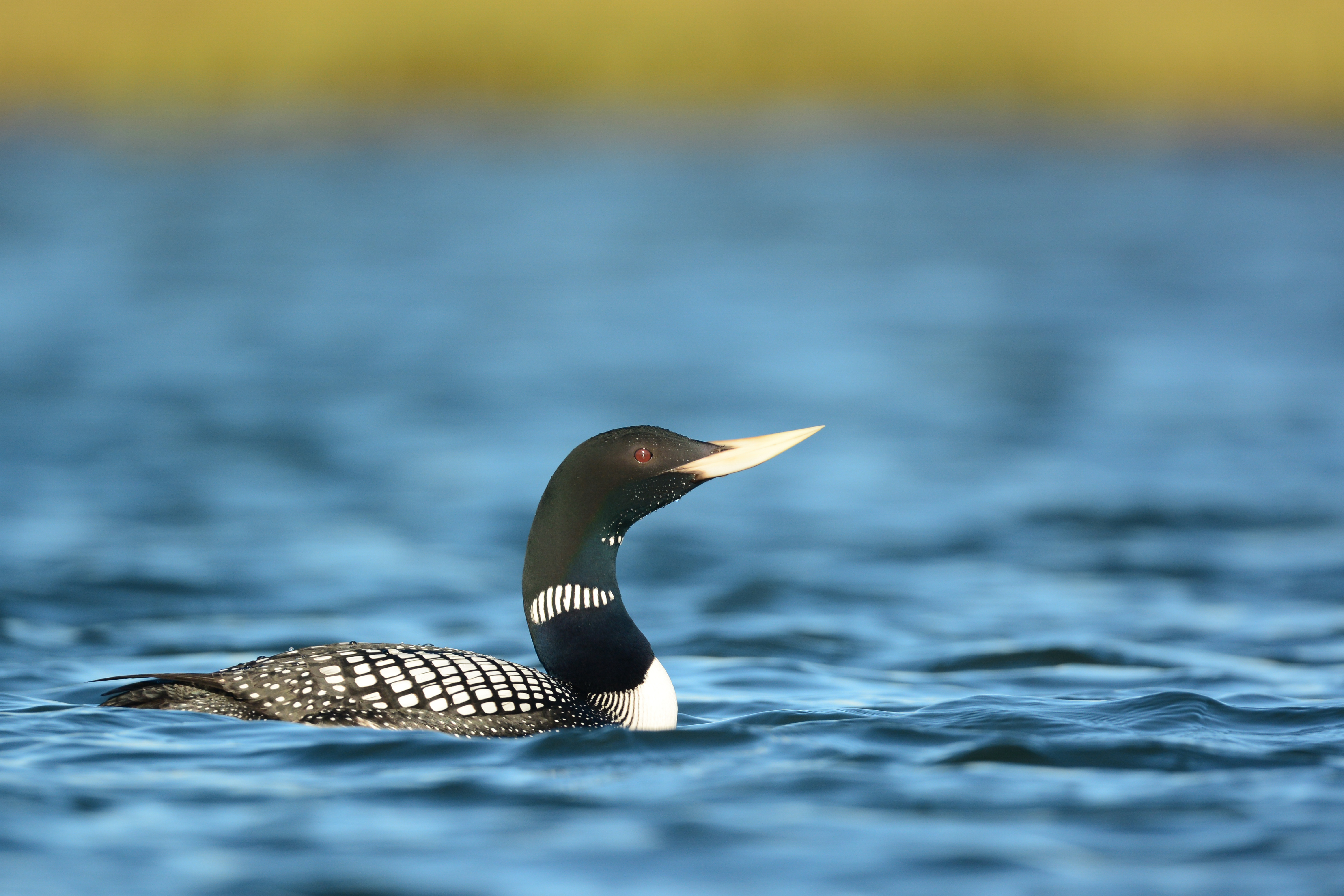 A Yellow-billed Loon/Diver (Gavia adamsii) swimming on a lake in the northern area of Alaska, USA. The dark neck feathers are iridescent and change color in the sunlight: they look black under shadow but may look dark green or teal under light.